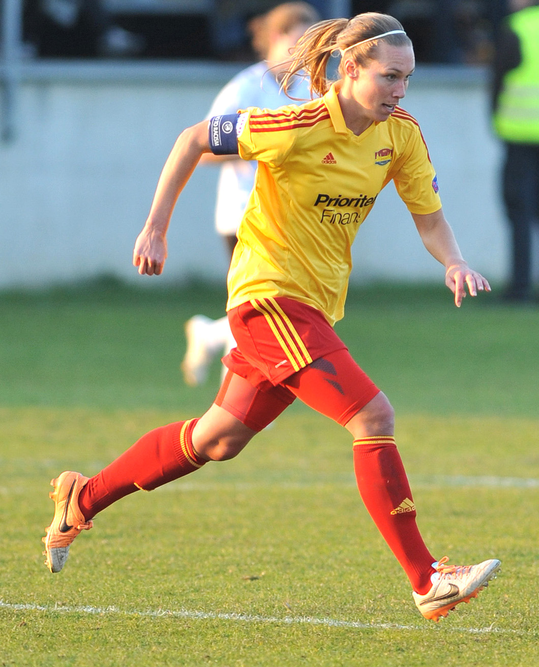 UEFA Women's Champions League 2013/14 SV Neulengbach - Tyresö FF Neulengbach, 29. März 2014 Whitney Engen